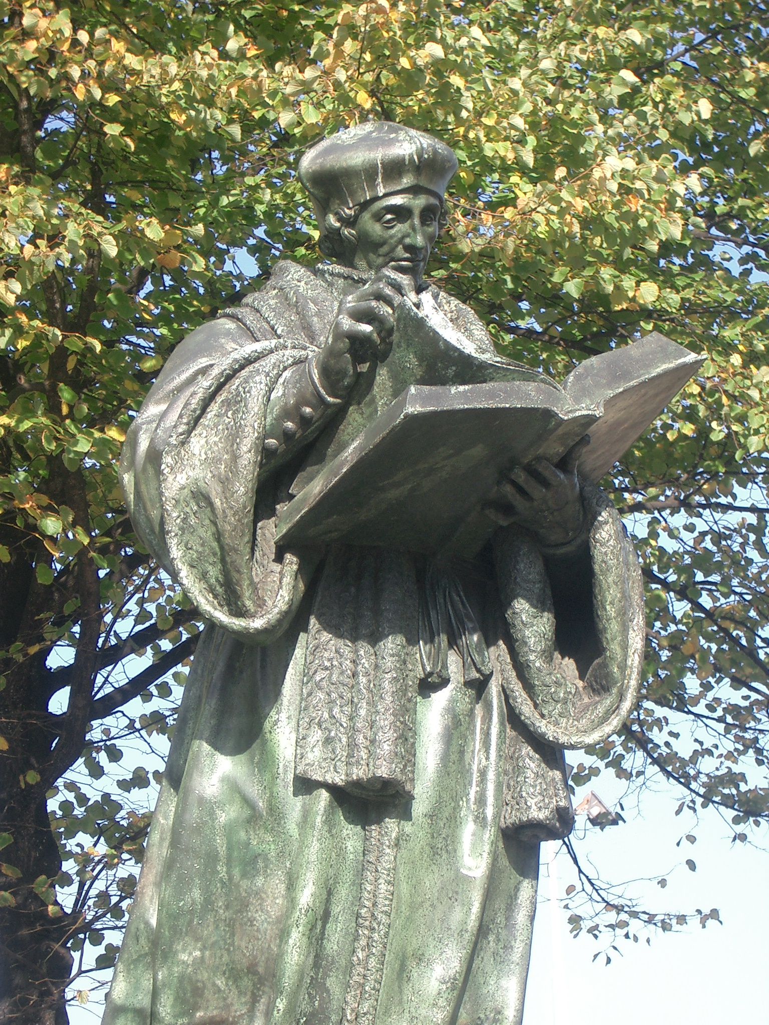 Statue of Desiderius Erasmus in Rotterdam.